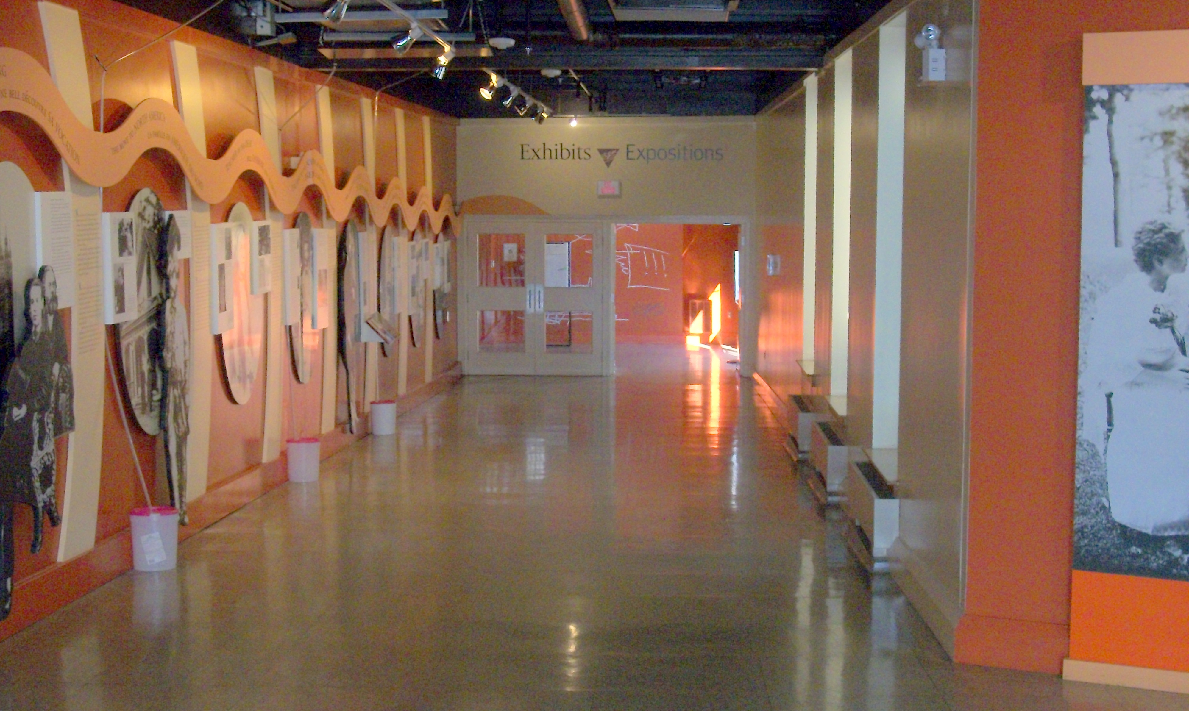 a corridoor in the Alexander Graham Bell Museum.